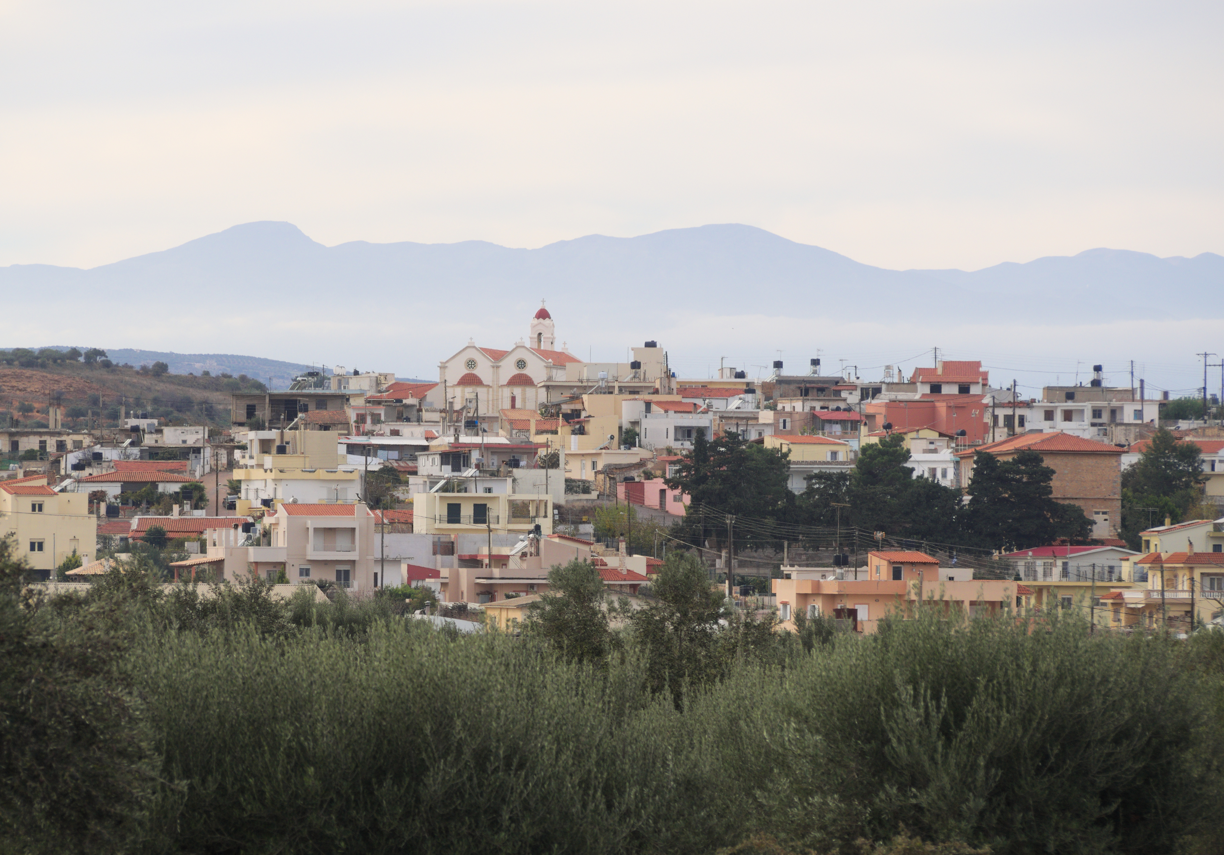 View of Thraphano from east.